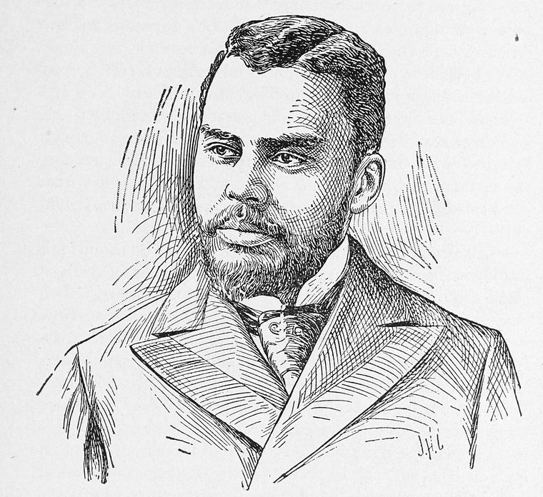 Atlanta physician William F. Penn, 1902